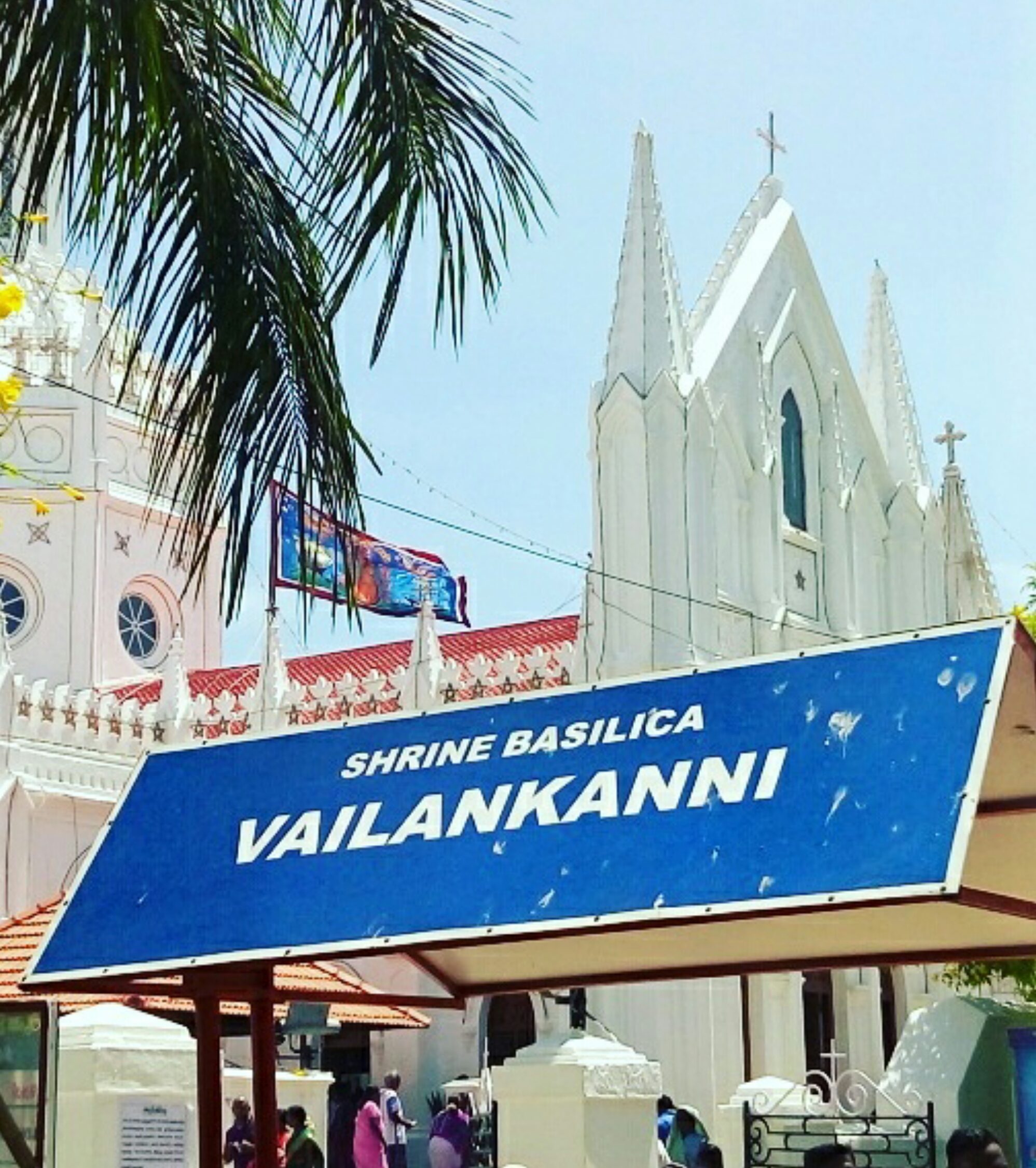 This image is a rare click of the feast day of our lady of health vailankanni. This image has a rare angle shot which shows the flag behind. The photography is done by Tiven gonsalves